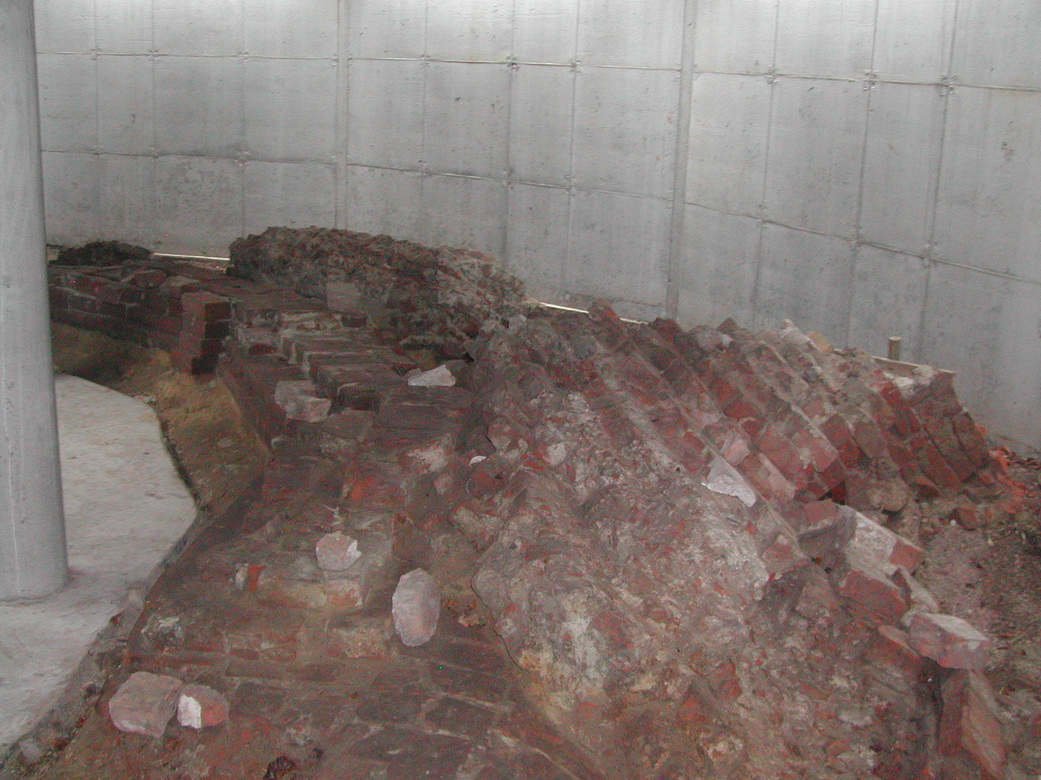 monastery Ihlow traces of demolition